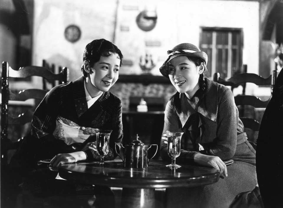 Yoshiko Okada and Yumeko Aizome in Tonari no Yae-chan (1934)